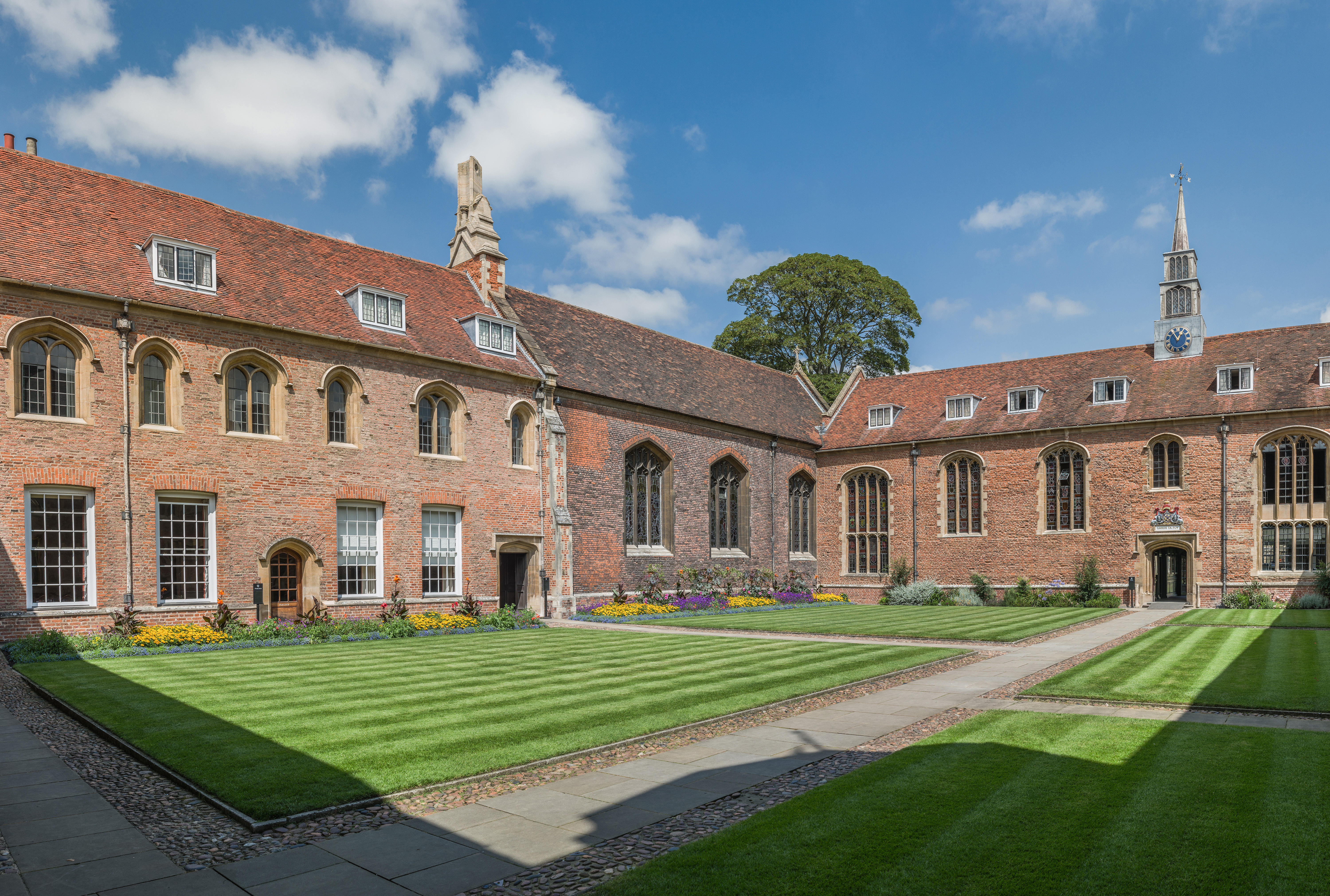 The view of First Court at Magdalene College, looking north-west towards the college chapel (middle) and hall (right).